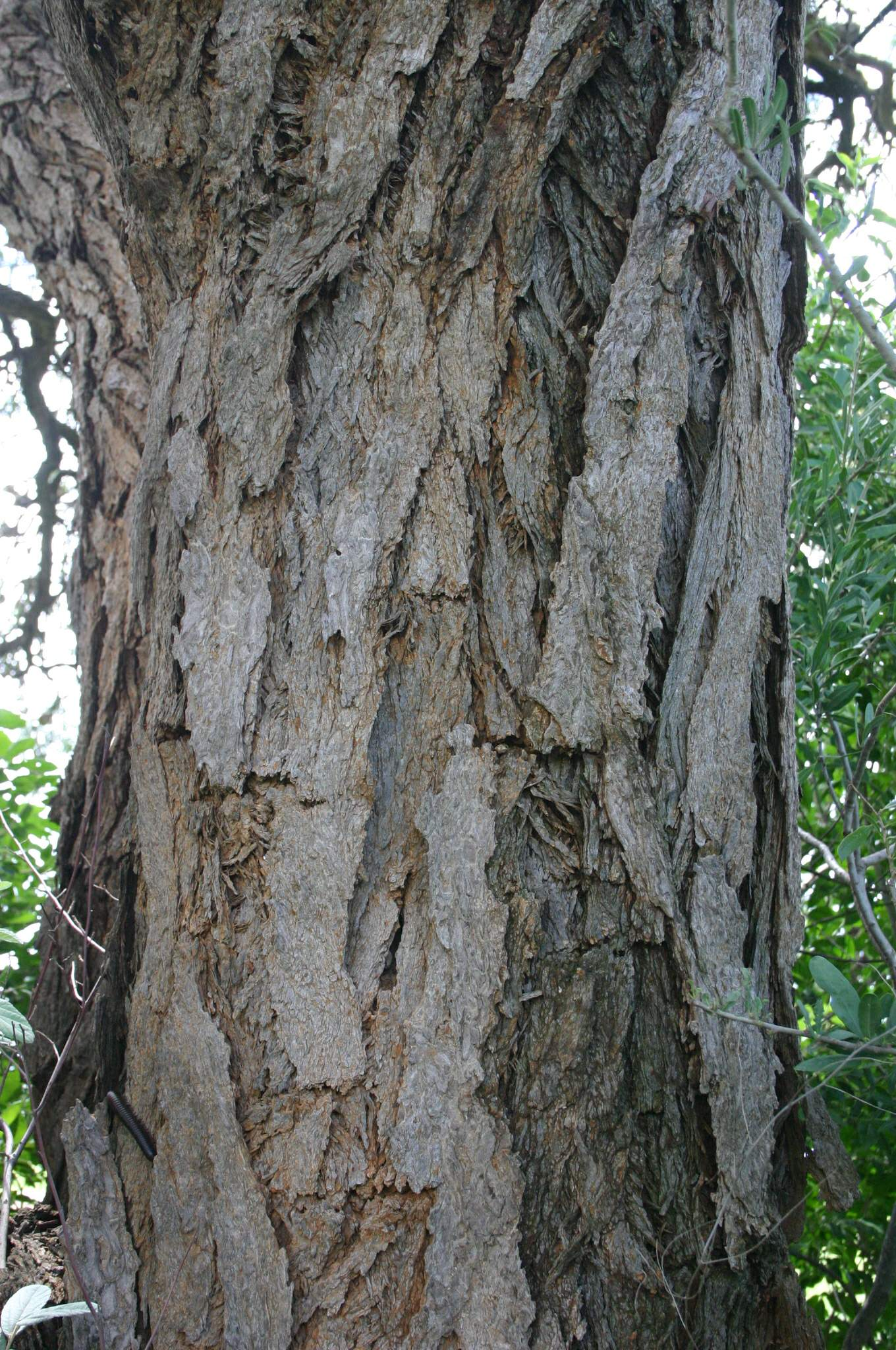 Acacia erioloba bark, near Potgietersrust, Transvaal, South Africa